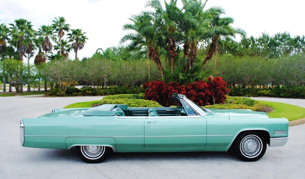 This is a picture of a vehicle (name of it is on the file name).